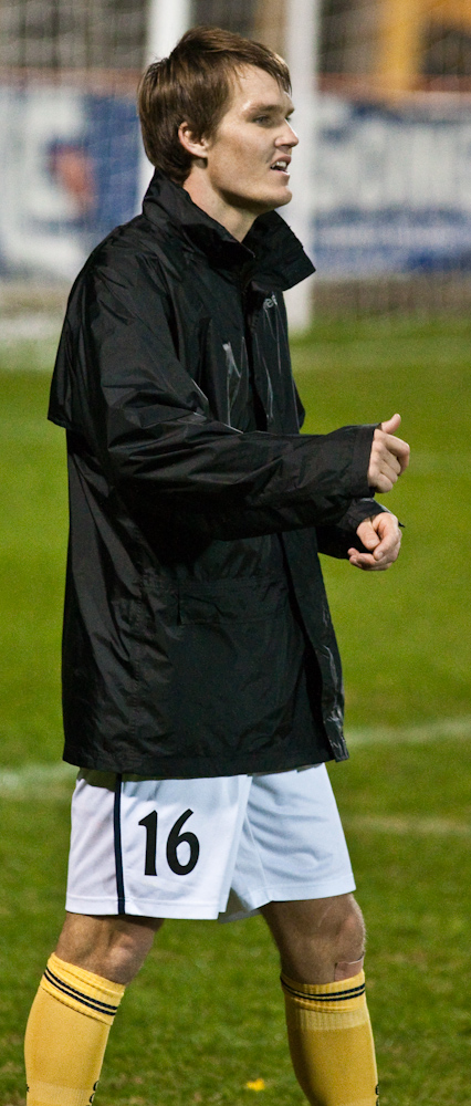 Nigel Boogaard at a pre-season match between the Central Coast Mariners and Sydney FC.